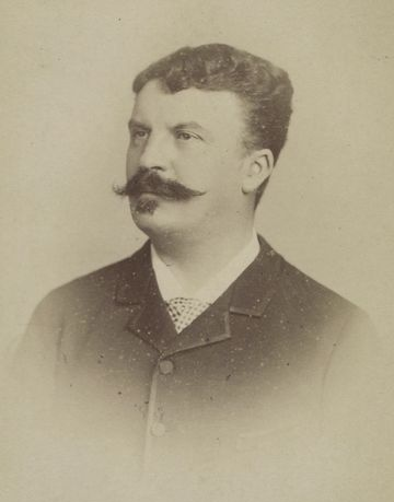 Photo portrait of French writer Guy de Maupassant during his career